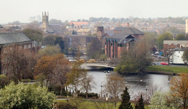 River Derwent in Derby centre